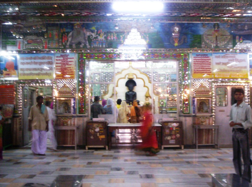 Temple